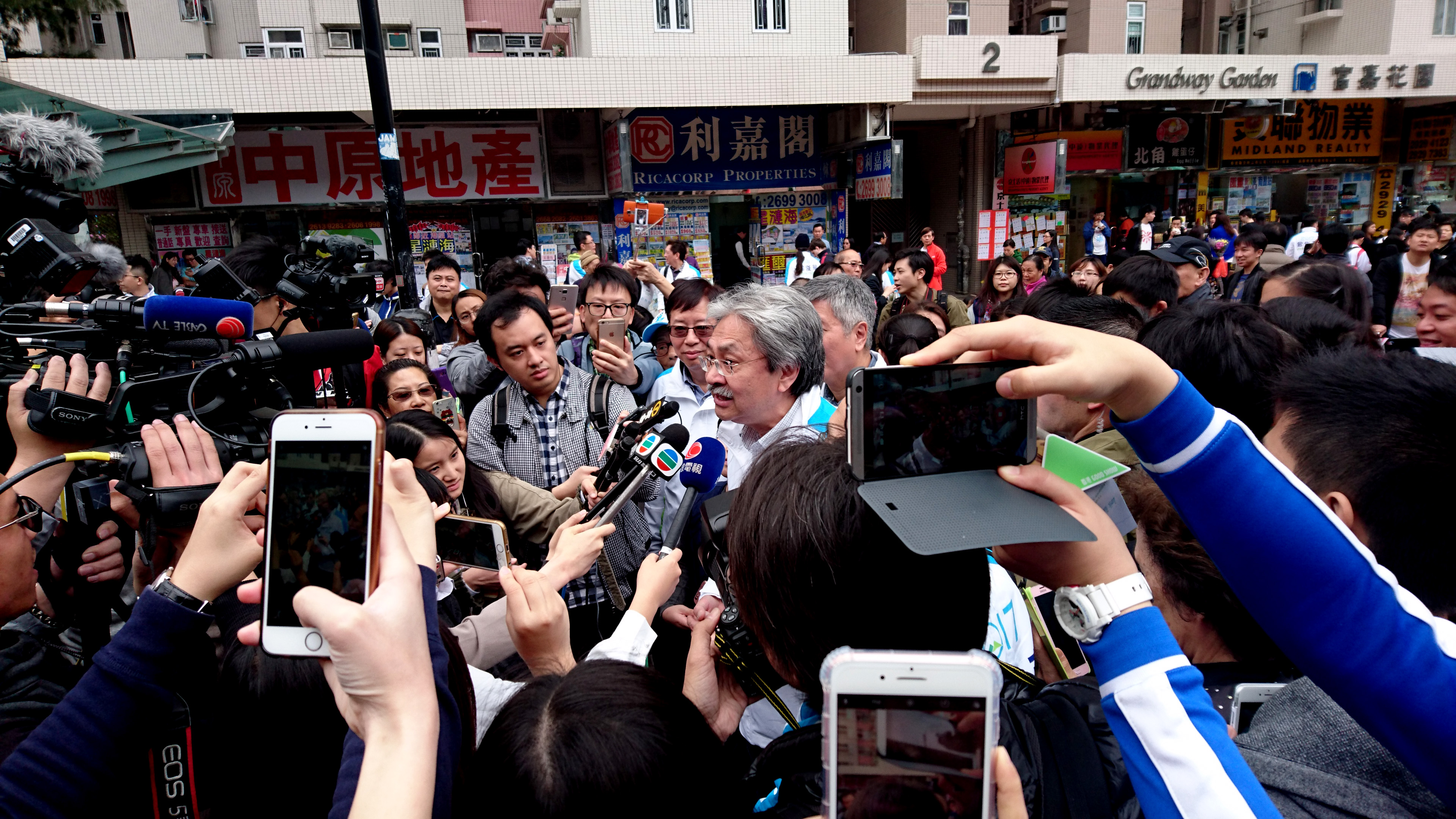 John Tsang Chun-wah, Candidate No.1 of the 2017 Chief Executive Election of Hong Kong, was interviewed by medias during he was plantgating at Tai Wai.